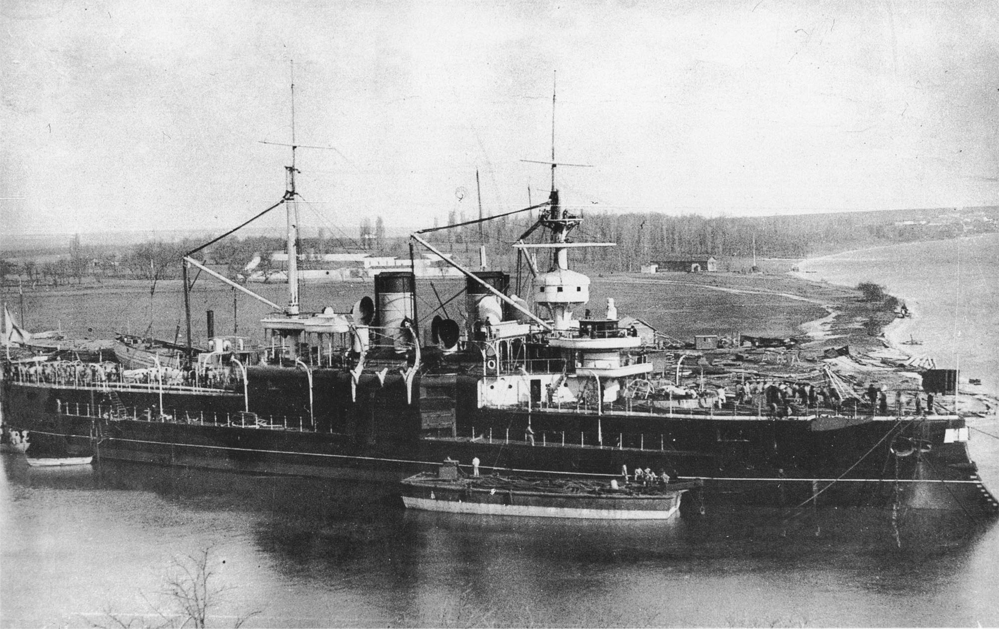 The Imperial Russian battleship Dvenadtsat' Apostolov in Sevastopol.